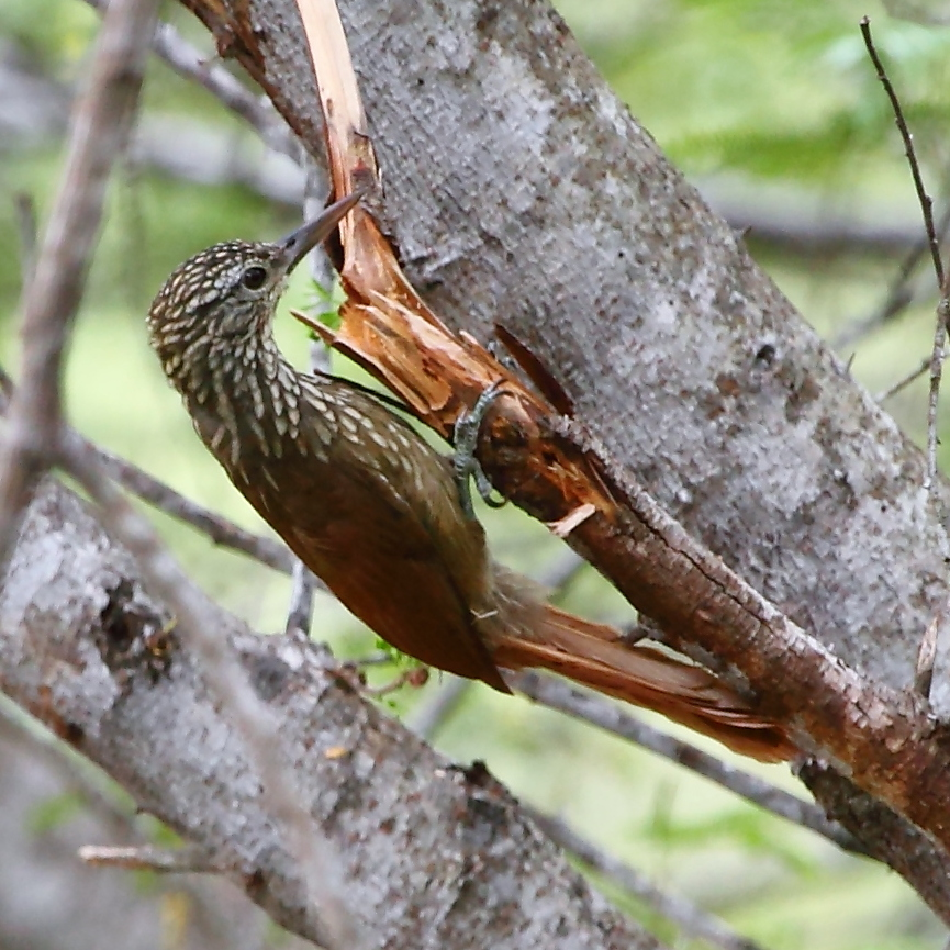 Straight-billed Woodcreeper at Riachuelo - RN - Brazil